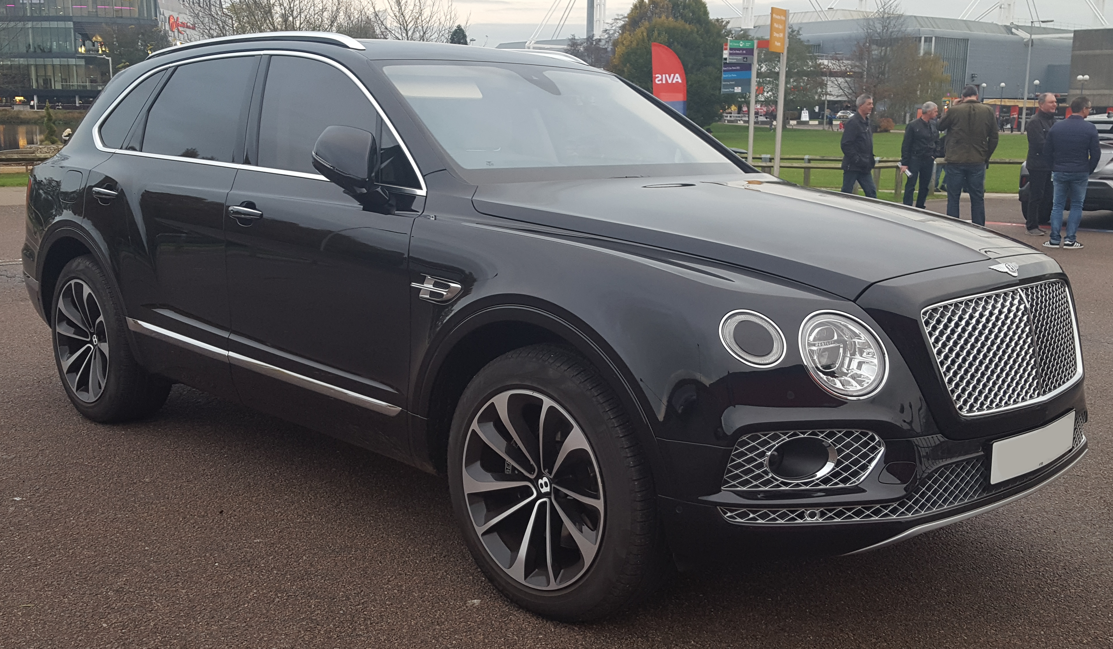 2016 Bentley Bentayga W12 Automatic 6.0 Front Taken at the NEC Birmingham, England